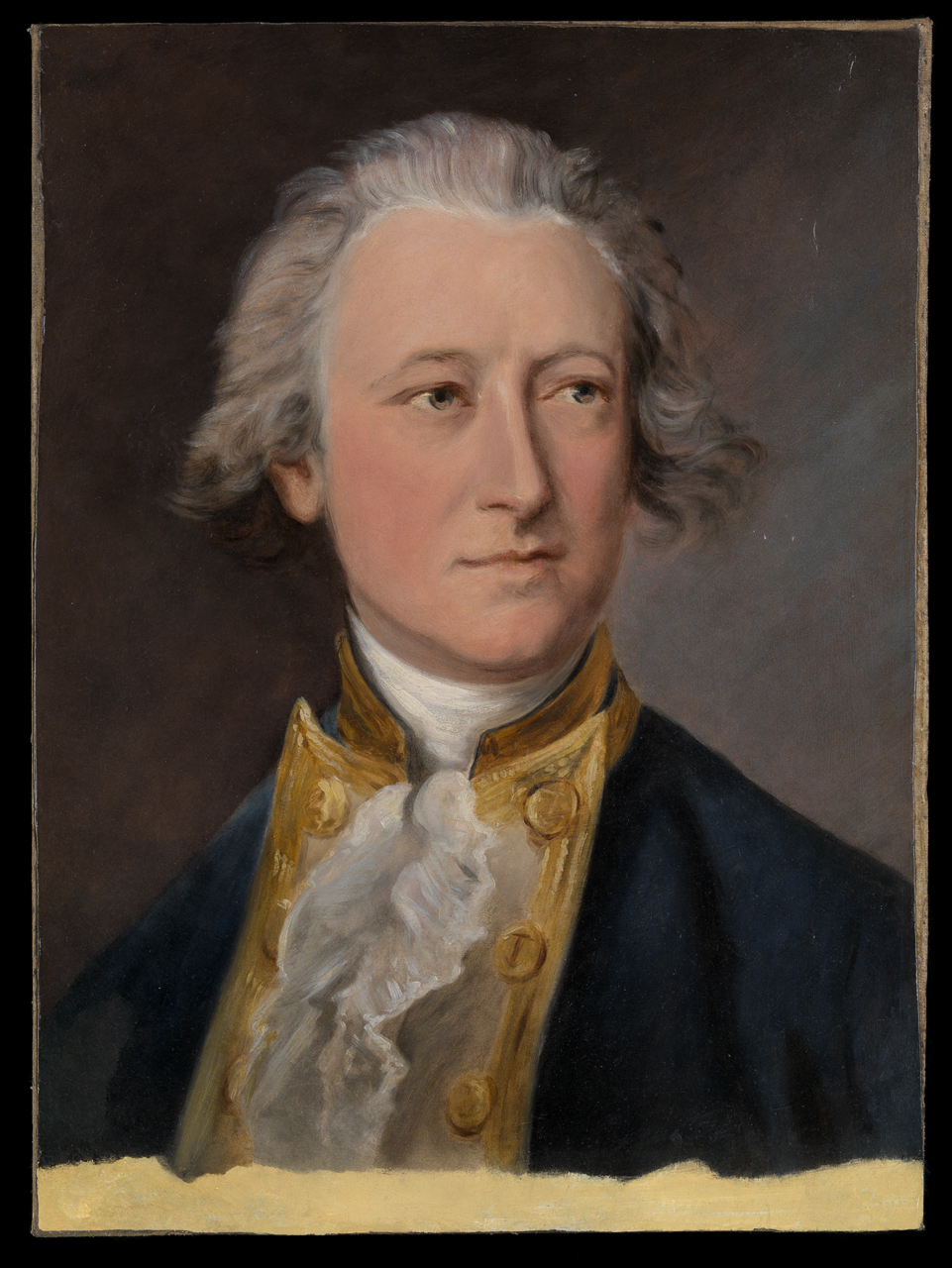 Portrait of Portrait of Captain the Hon. Charles Phipps.